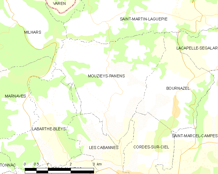 Map of French municipality Mouzieys-Panens